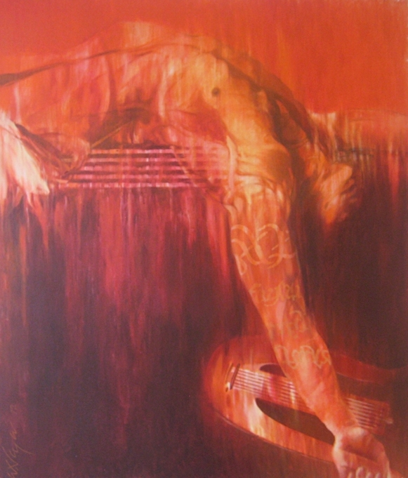 1 Painting Muerte de Orfeo (Death of Orpheus) by Antonio García Vega[1]